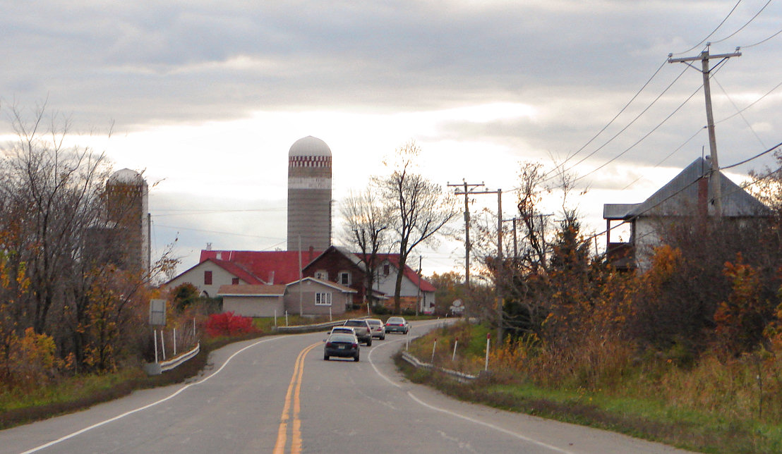 Highway 148 through Lochaber, Quebec, Canada